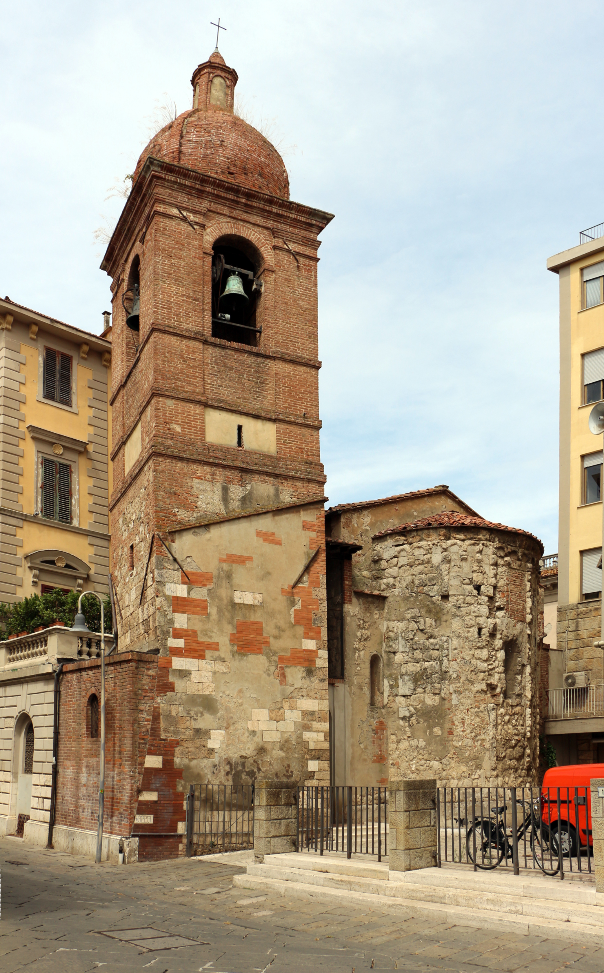 San Pietro (Grosseto)